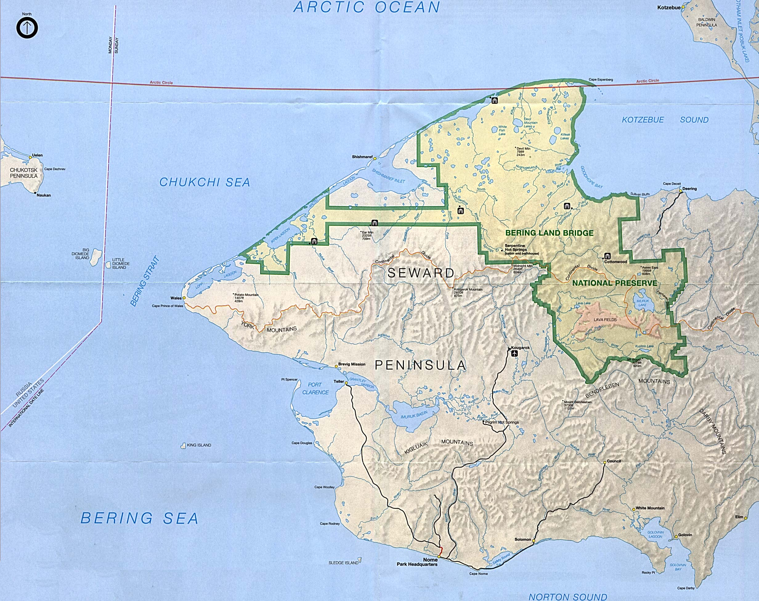 Map of Bering Land Bridge National Preserve in 1995 originally listed at